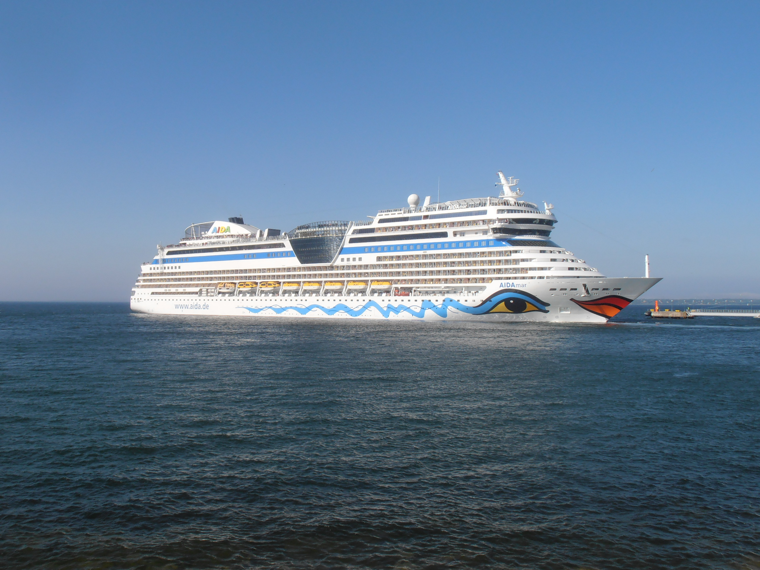 Cruise ship AIDAmar departing Tallinn 27 May 2013